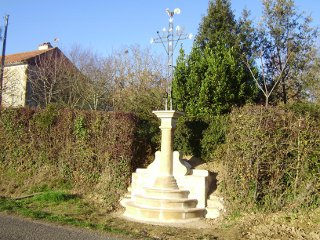 La croix Saint André